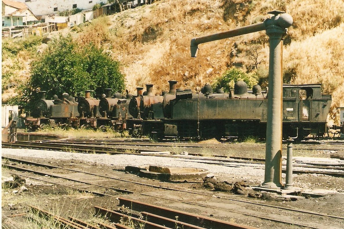 I was amazed to find these steam locomotives just left to rust away at Régua, in Portugal's Douro Valley. I understand that they had been out of use since the mid 1980s, and this view was taken in June 1991. A quick look on the satellite images within Google maps shows that there is still something parked on these sidings - anyone have any more info?